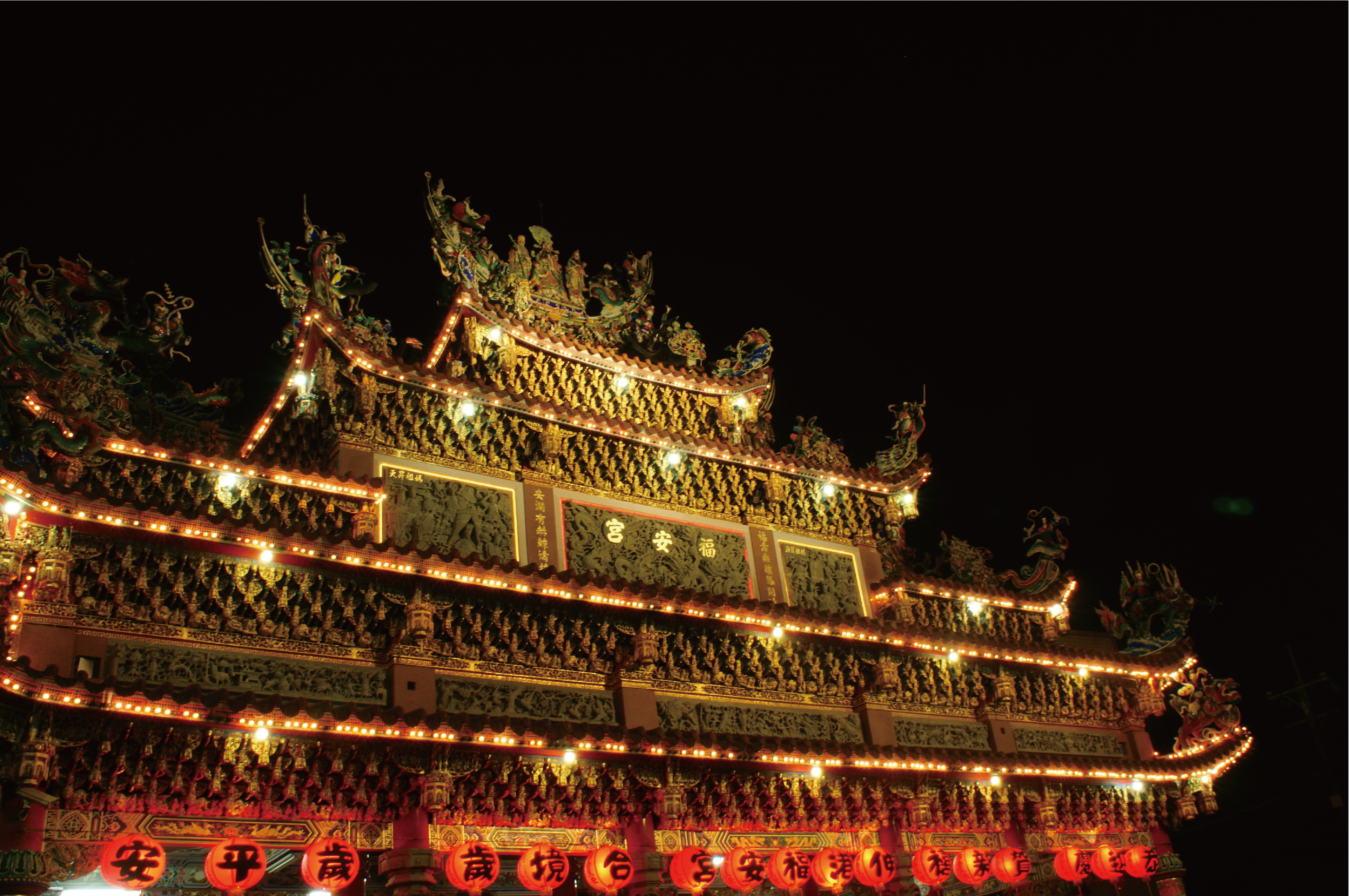 Fu-An Temple